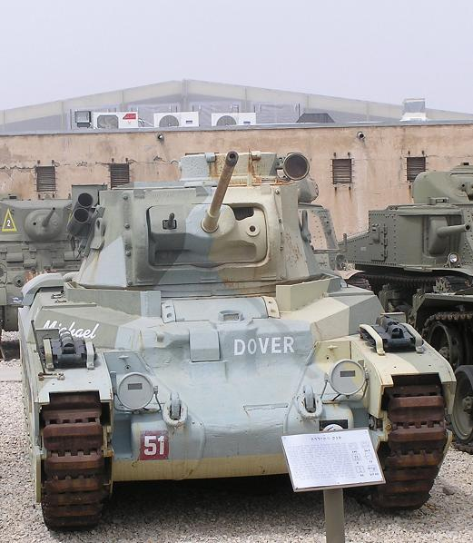 Matilda II tank in Yad La-Shiryon, The Armored Corps Memorial Site and Museum at Latrun, Israel